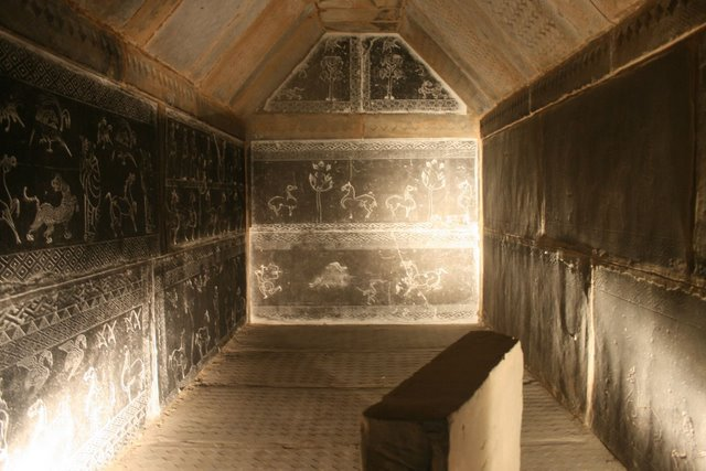 A Chinese Eastern Han Dynasty (25–220 AD) tomb chamber with wall decorations of nature scenes and people.